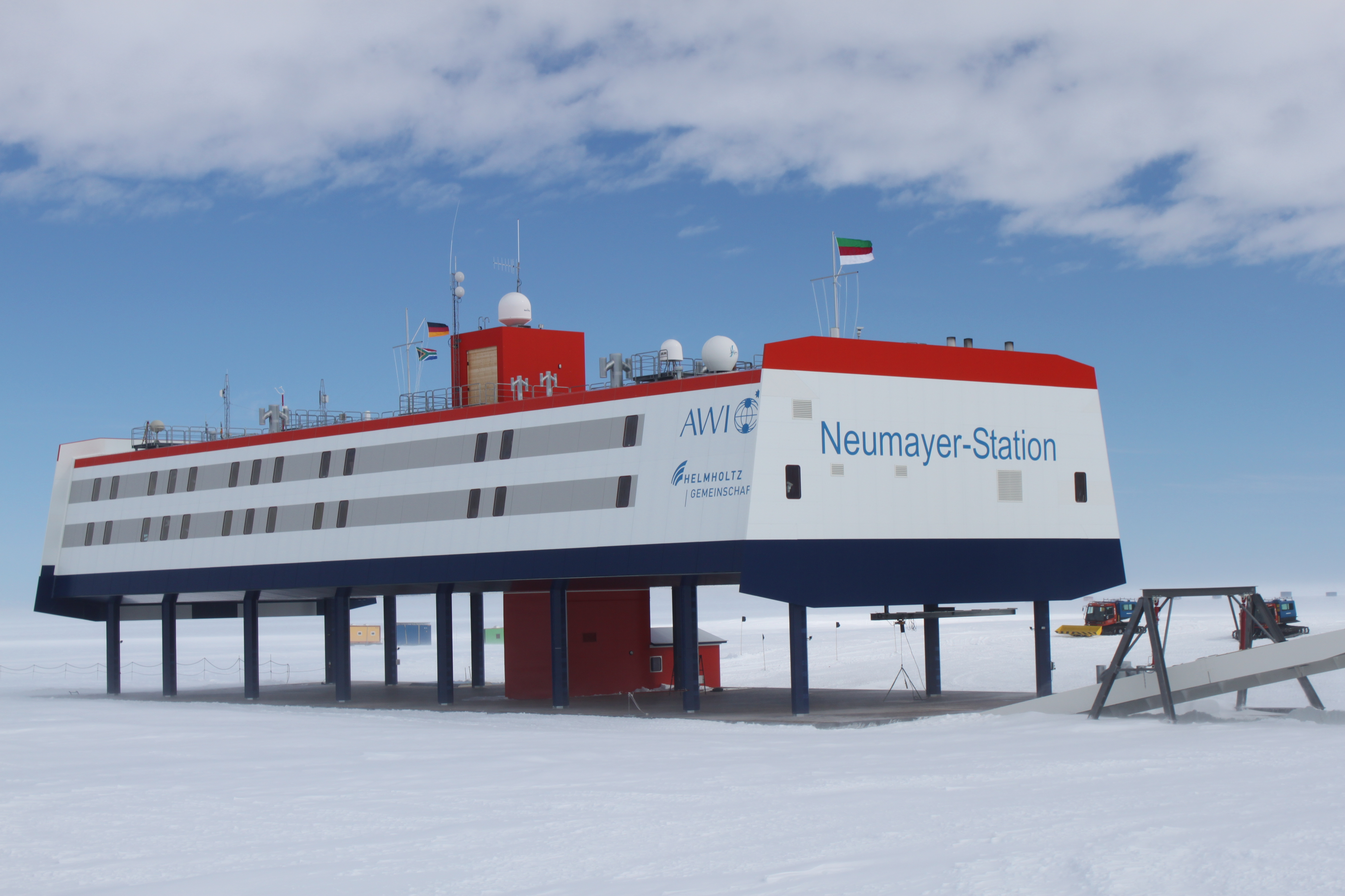 German Antarctic research base Neumayer Station III, located in Dronning Maud Land, Antarctica, operated by the Alfred Wegener Institute Helmholtz Centre for Polar and Marine Research (AWI)